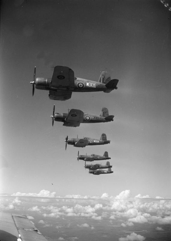 Formation photograph of six British Naval Airmen in training over the Maine countryside. They are flying American built Chance-Vought Corsairs, with British markings. These pilots will soon leave Lewiston where they are training and proceed to Norfolk for their deck landing exercises. - November 1944Might be Brewster built F3A-1D (Mk III) or Goodyear built FG-1D (Mk IV), equivalent to the Chance-Vought F4U-1D. See also : File:The Royal Navy during the Second World War A26703.jpg File:The Royal Navy during the Second World War A26704.jpg File:The Royal Navy during the Second World War A26728.jpg File:The Royal Navy during the Second World War A26734.jpg